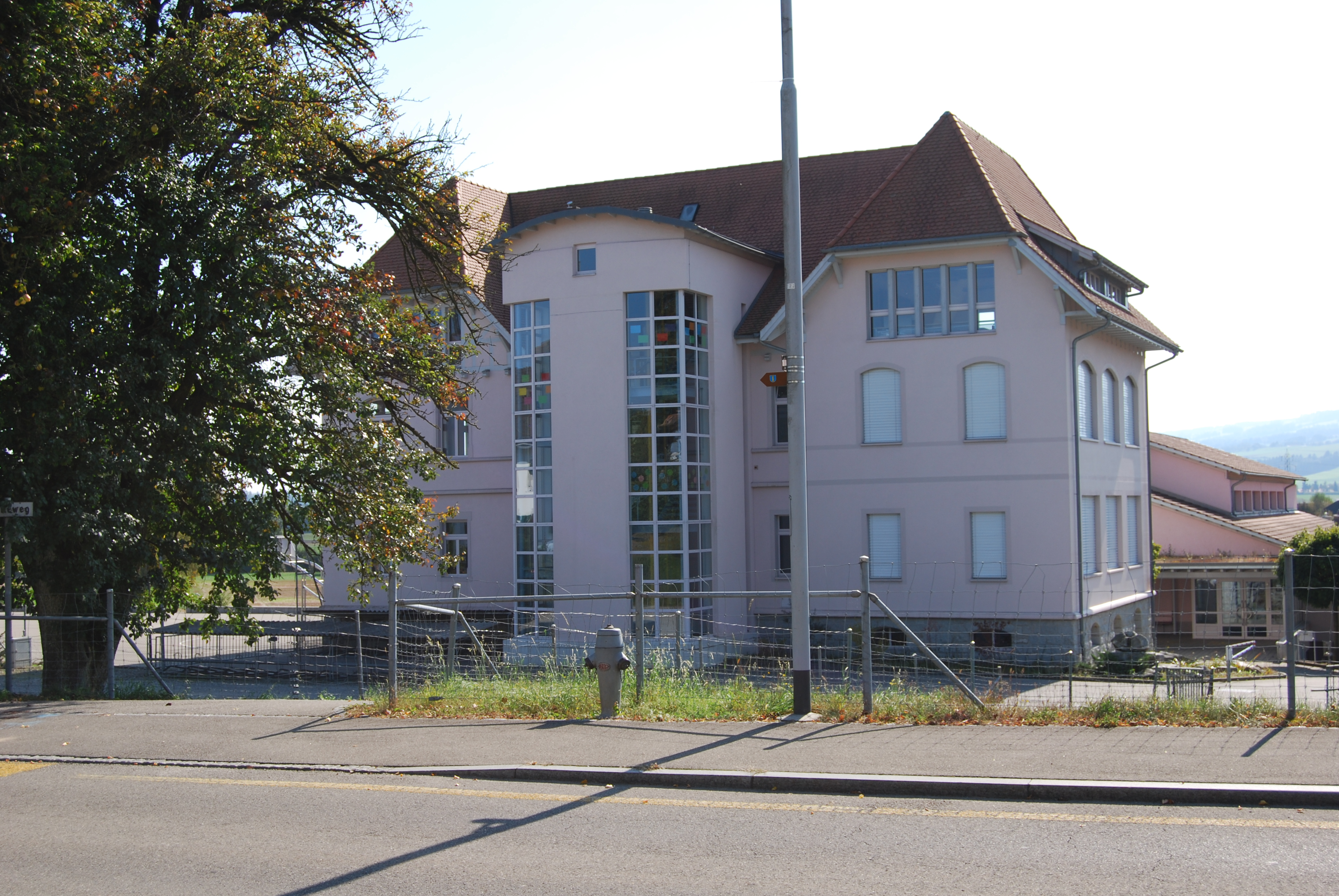 School at Bünzen, canton of Aargau, SwitzerlandEsperanto: Lernejo en Bünzen, Kantono Argovio, Svislando